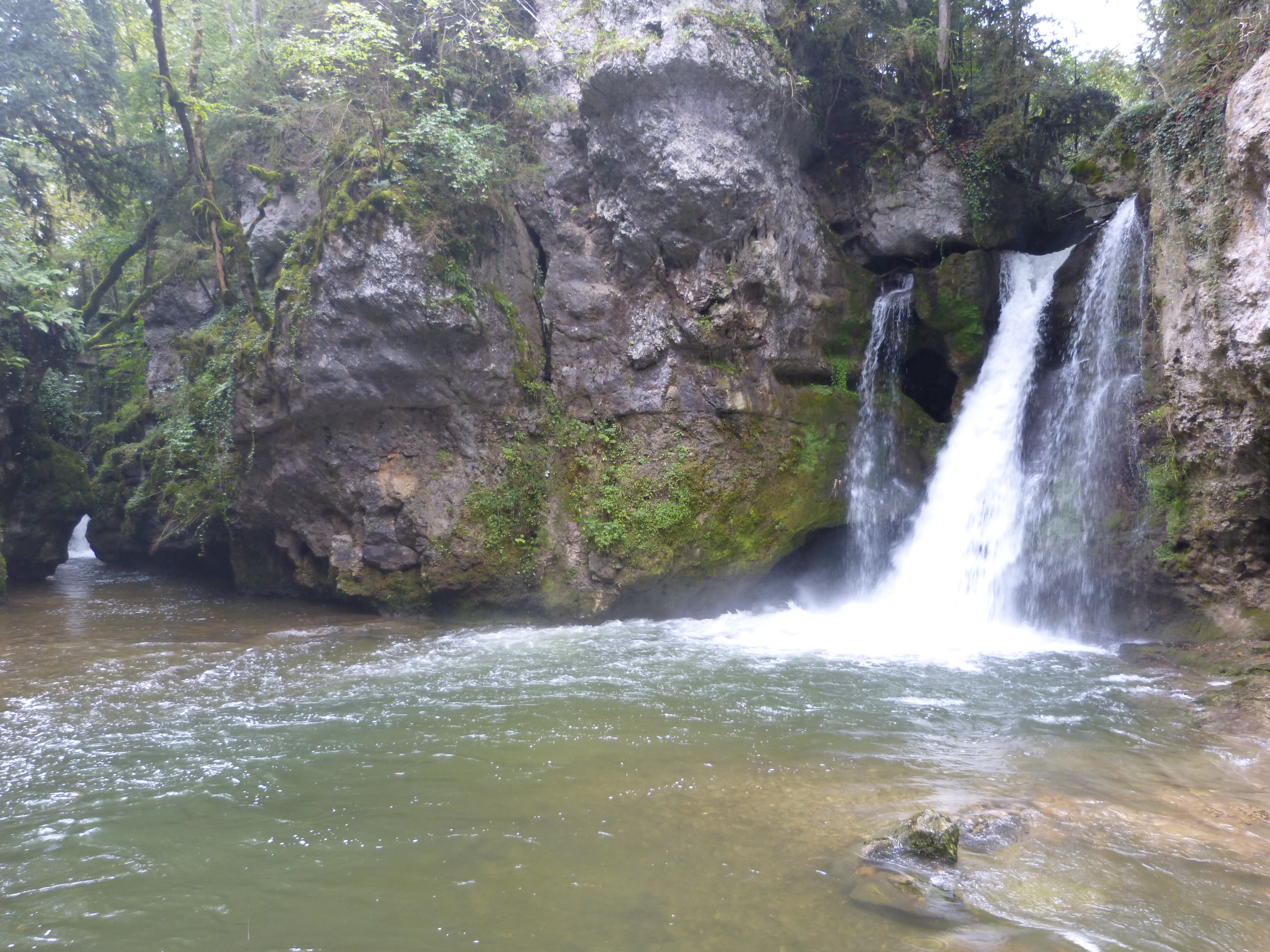 Tine of Conflens where Veyron comes together in Venoge.